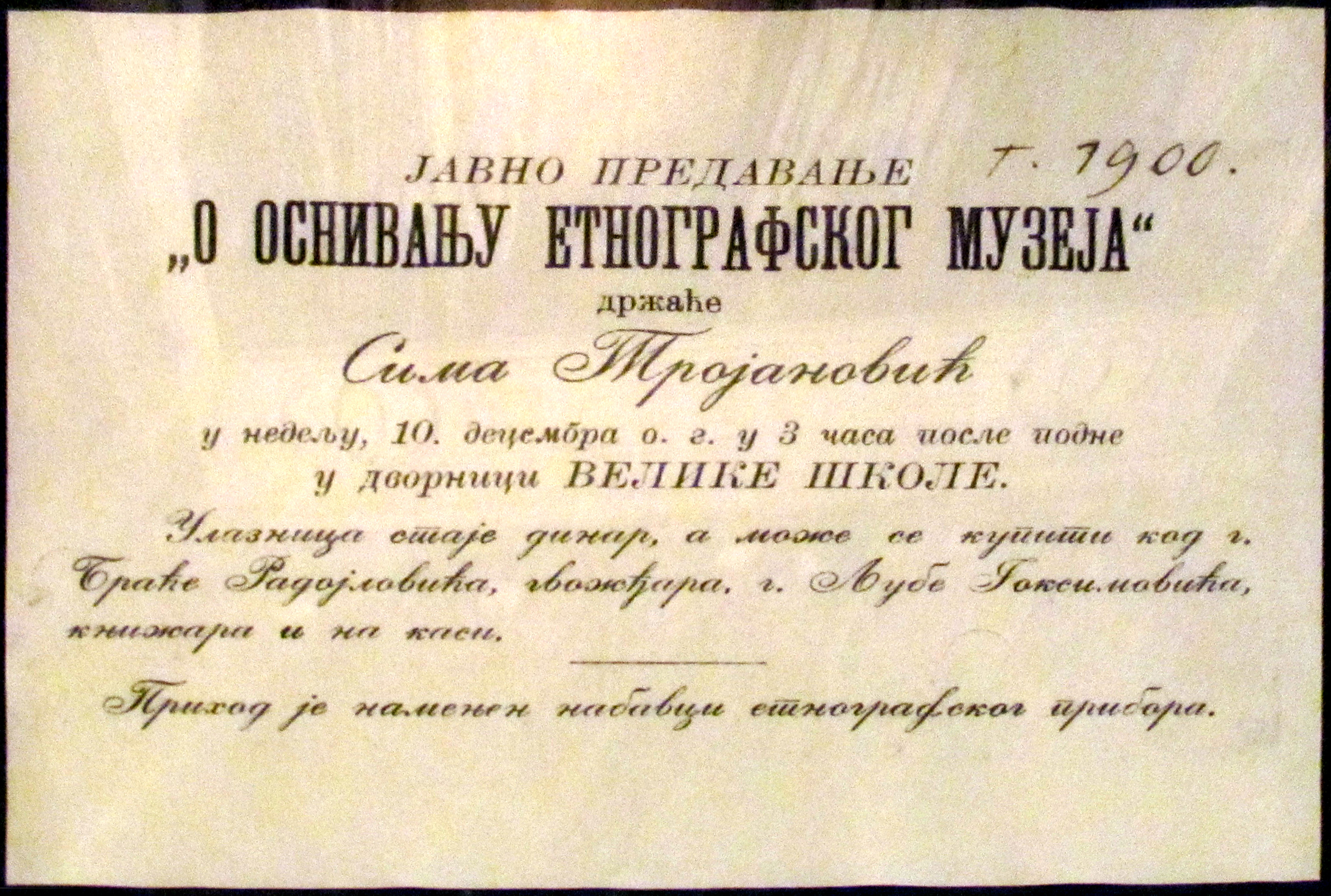 Foundation of Ethnographic Museum in Belgrade